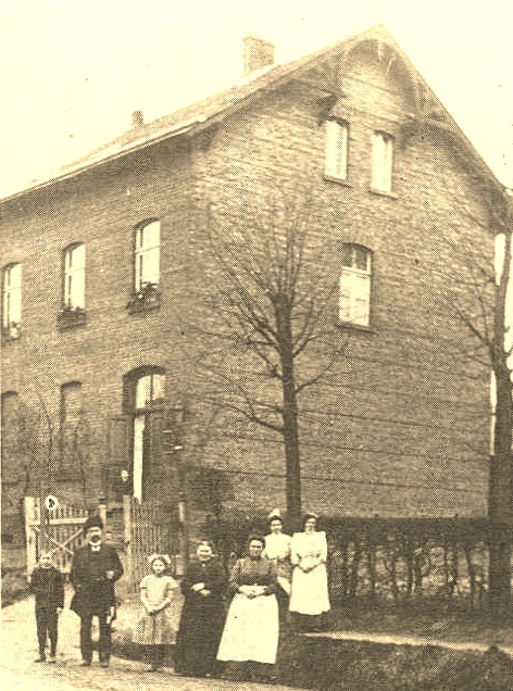 Erste Schule in Heiligenhaus (Overath) von 1892 mit Familie des Lehrers Christoph Schmitz